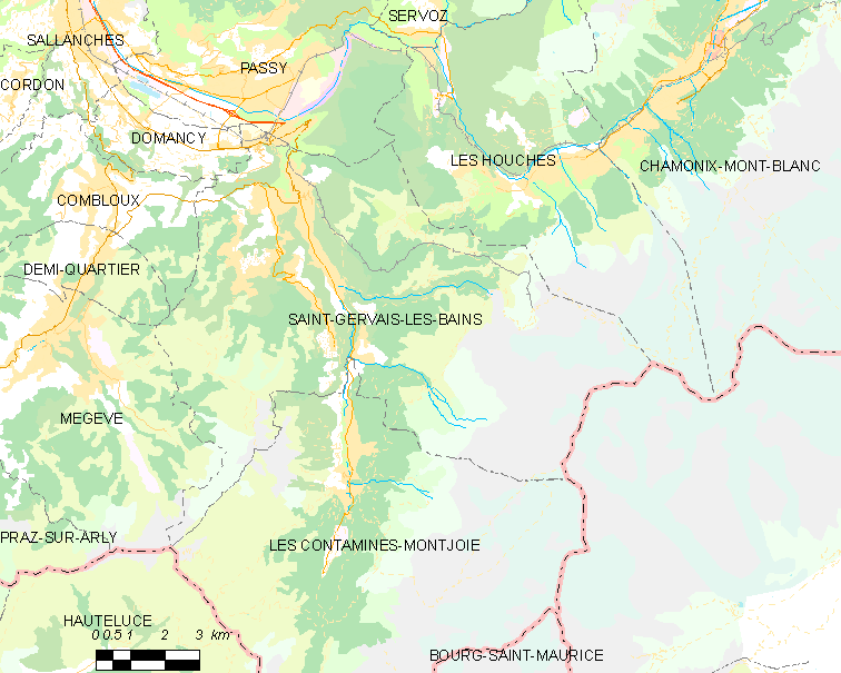 Map of French municipality Saint-Gervais-les-Bains